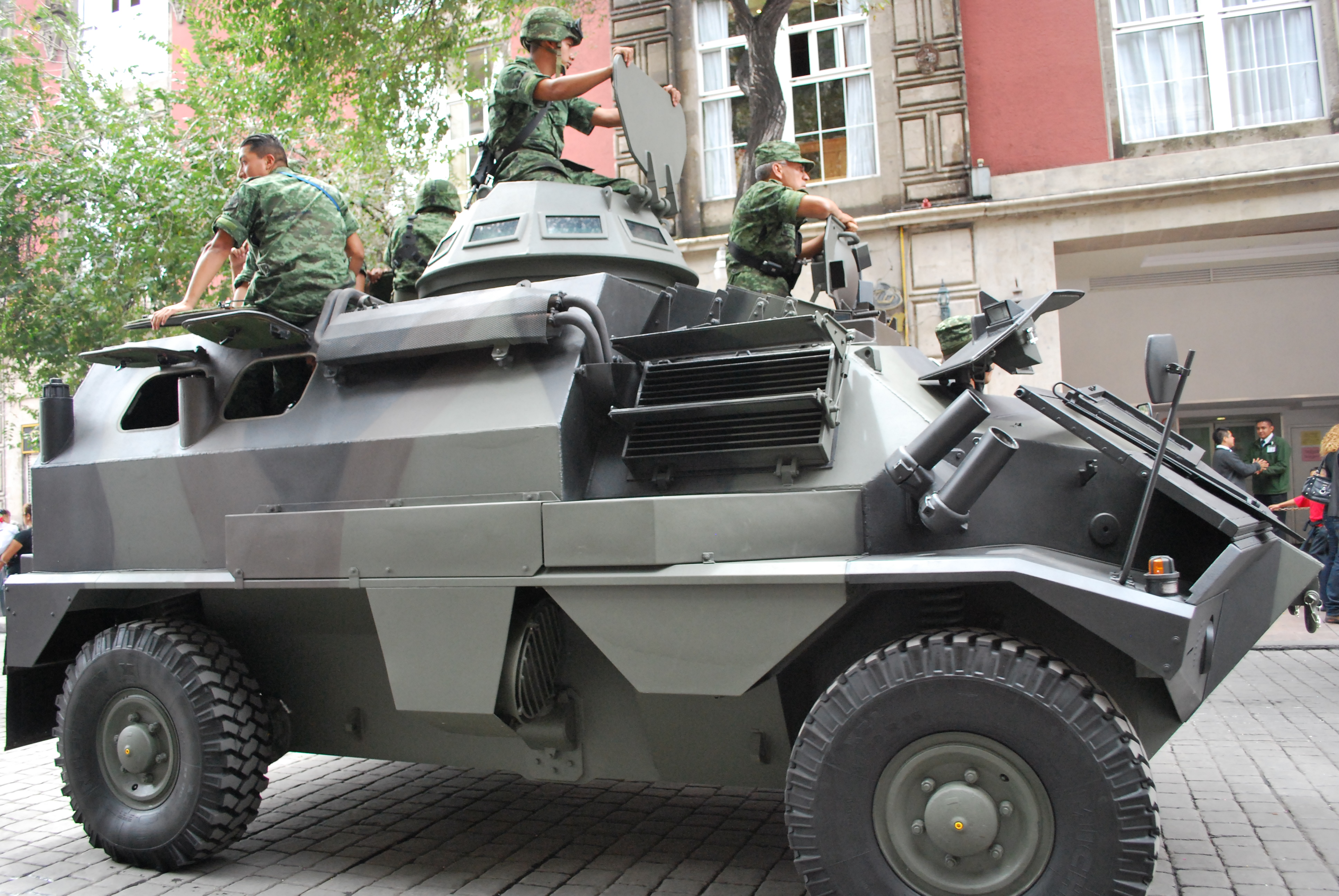 Tank VCR/TT "Hydrojet" 4x4 on Madero Street in Mexico City after Independence Day celebrations